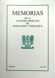 Cover of "Memorias" of the Academia Mexicana de Genealogía y Heráldica